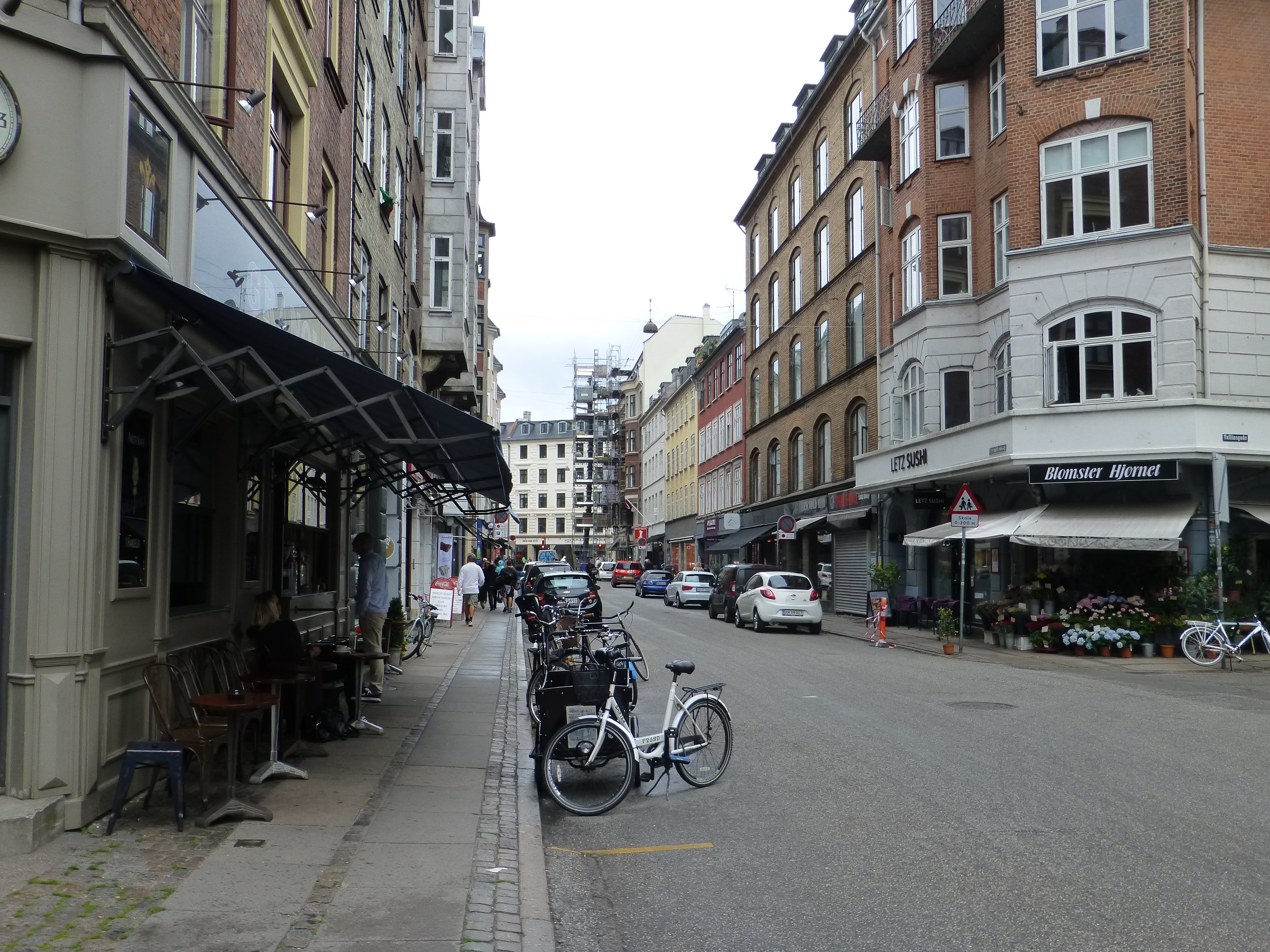 The street Værnedamsvej in Vesterbro in Copenhagen.